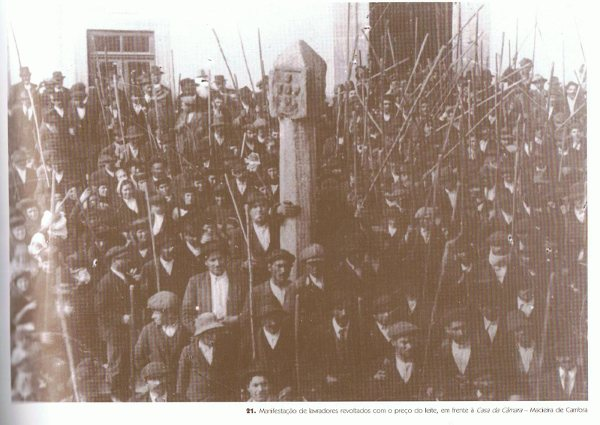 Photo of an angry crowd during the "Milk Uprise" in Madeira Island in the year 1936.